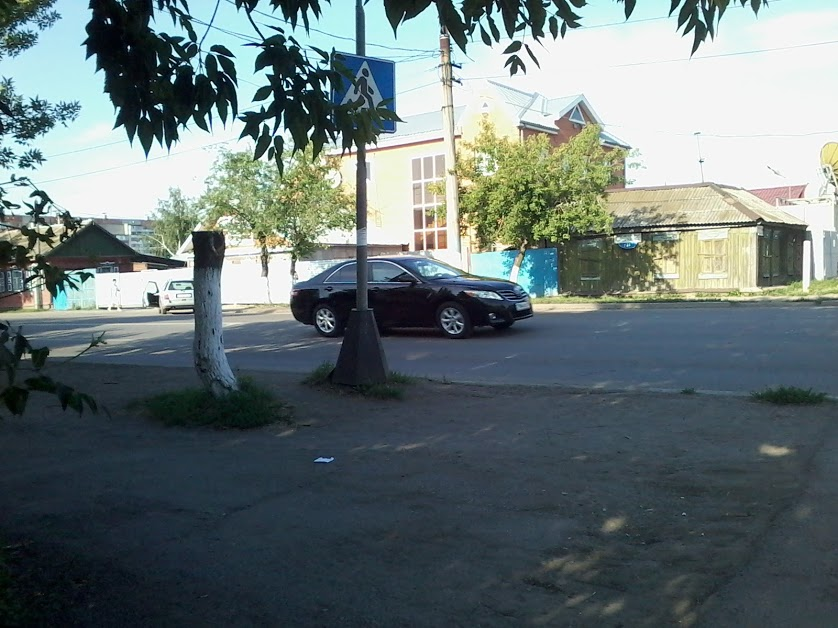 Улица Мира